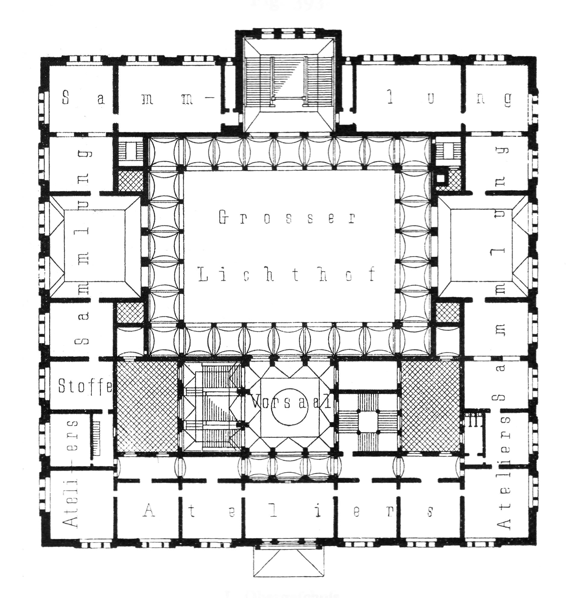 Berlin - former Museum of Applied Arts (now Martin-Gropius-Bau), plan first floor